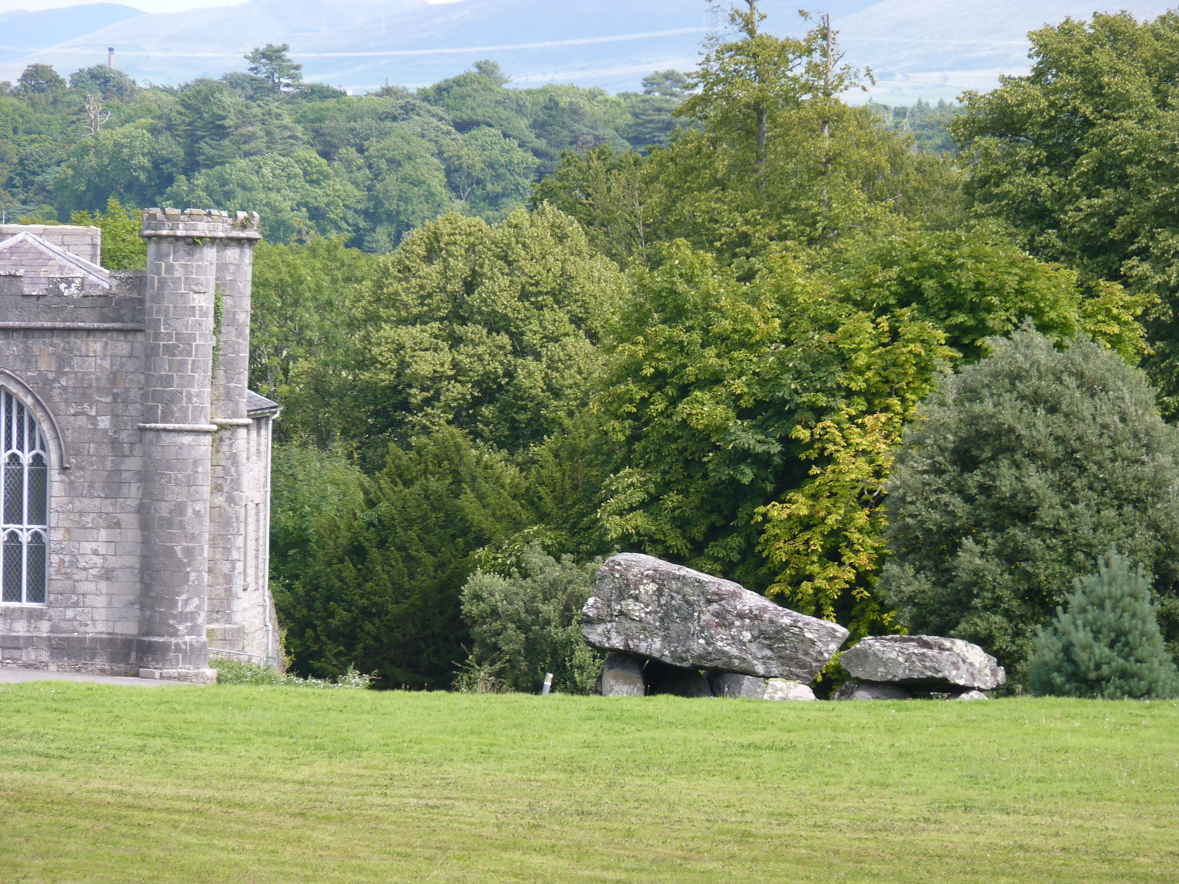 Plas Newydd burial chambers, Anglesey, on National Trust property, but not accessible to the visitors.